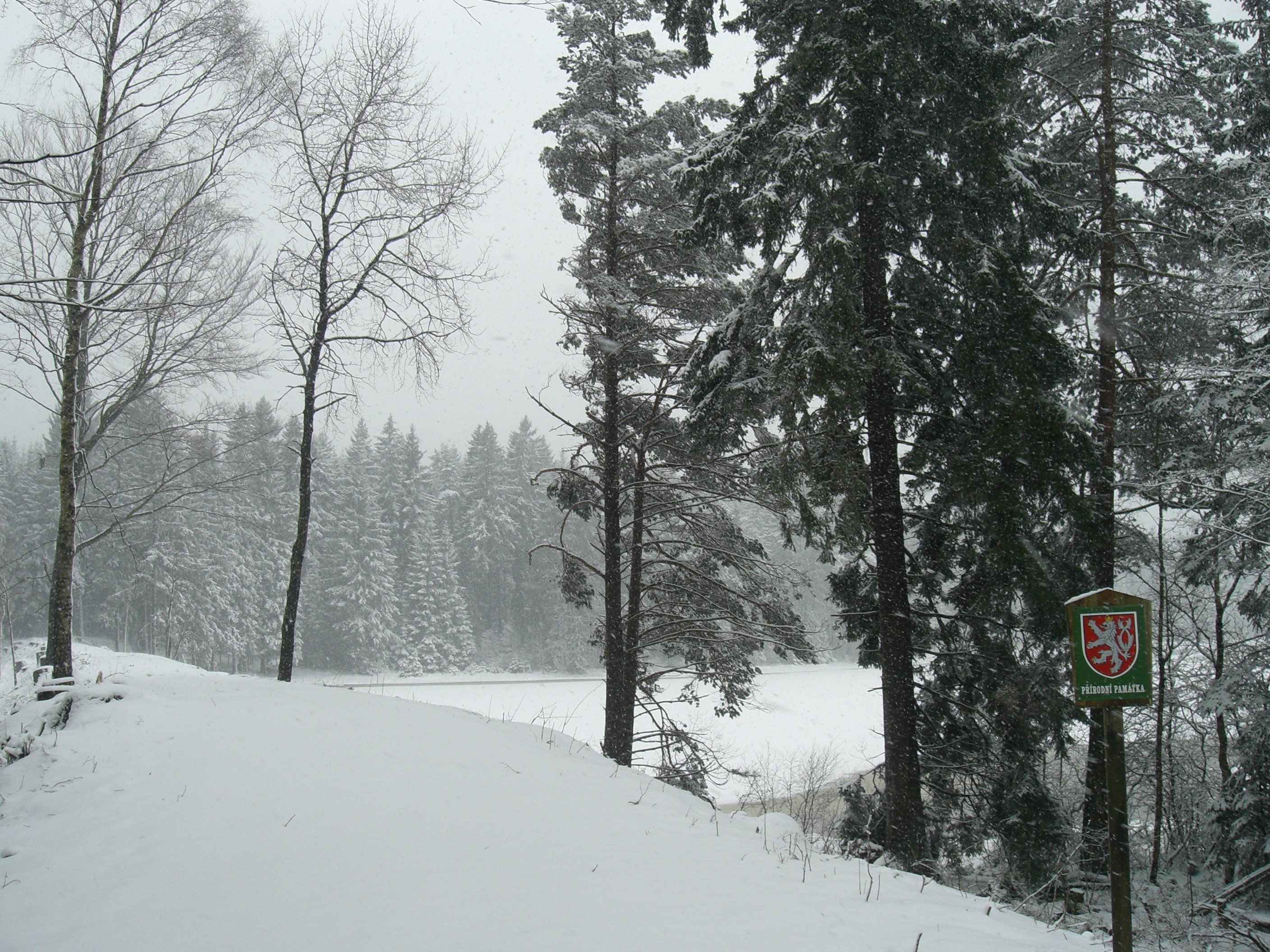 Nature reservation Gebhárecký pond, Jindřichův Hradec district, Czech Republic